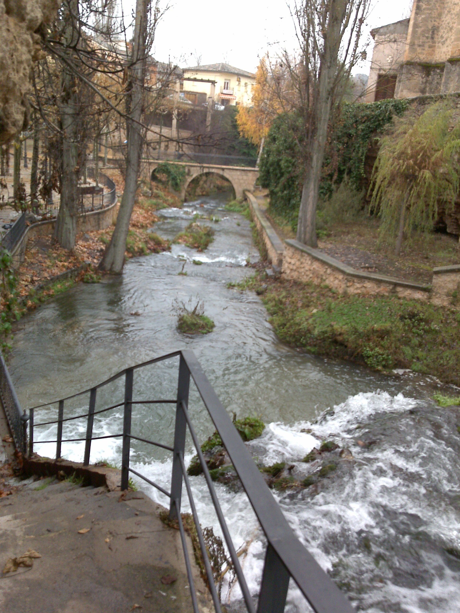 Cifuentes river for Trillo, in Guadalajara, Spain.